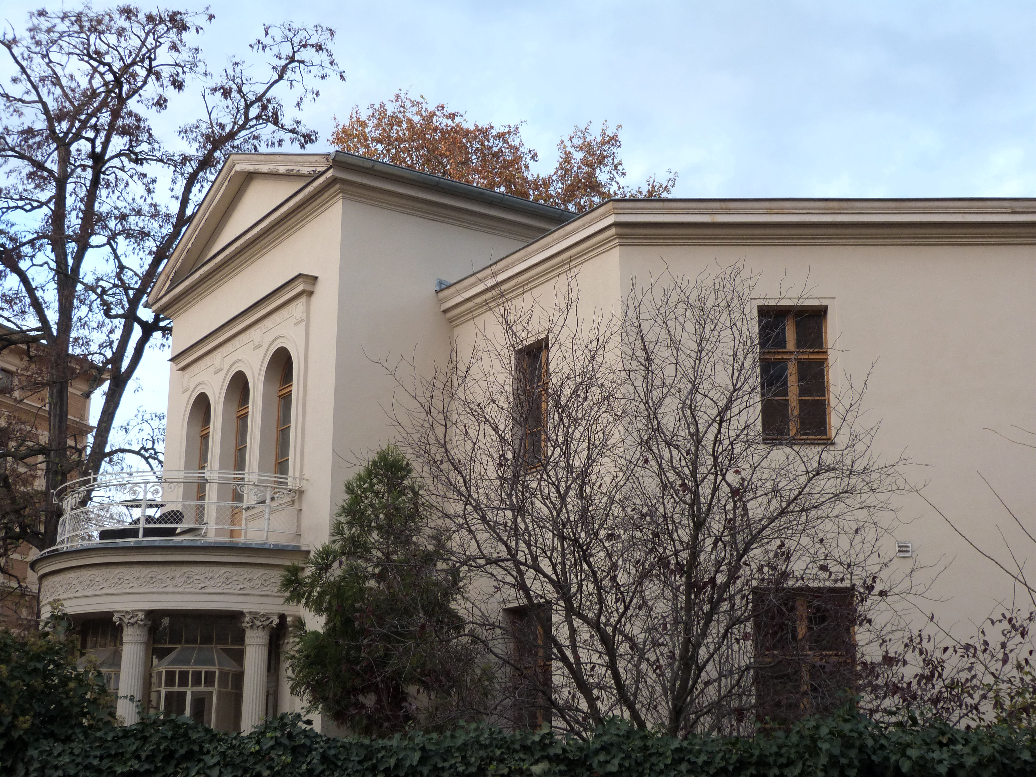 Villa Heine, Luisenstrasse No. 1, Halle (Saale)